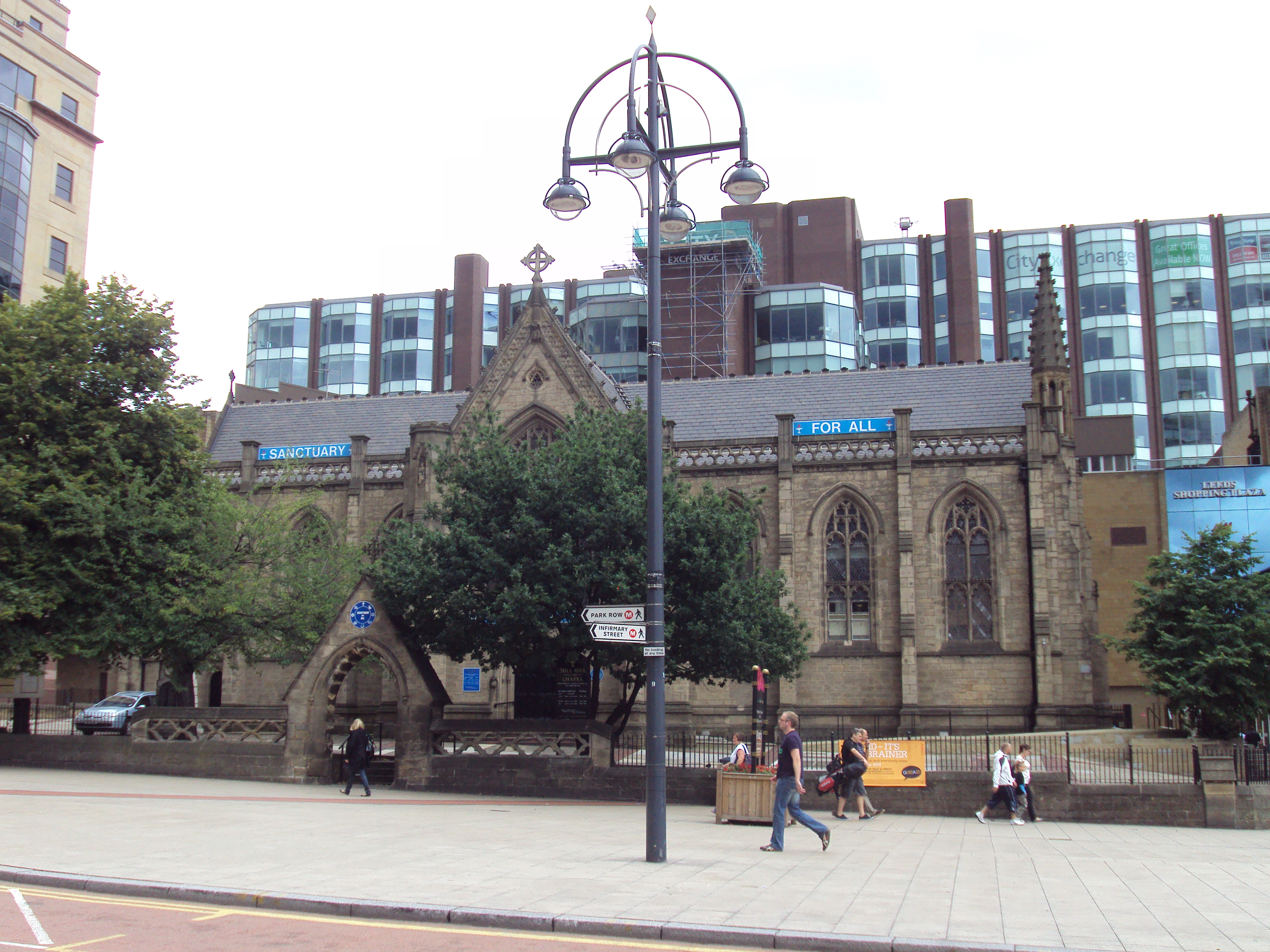 Mill Hill Chapel, Park Row, Leeds, West Yorkshire, seen from the west